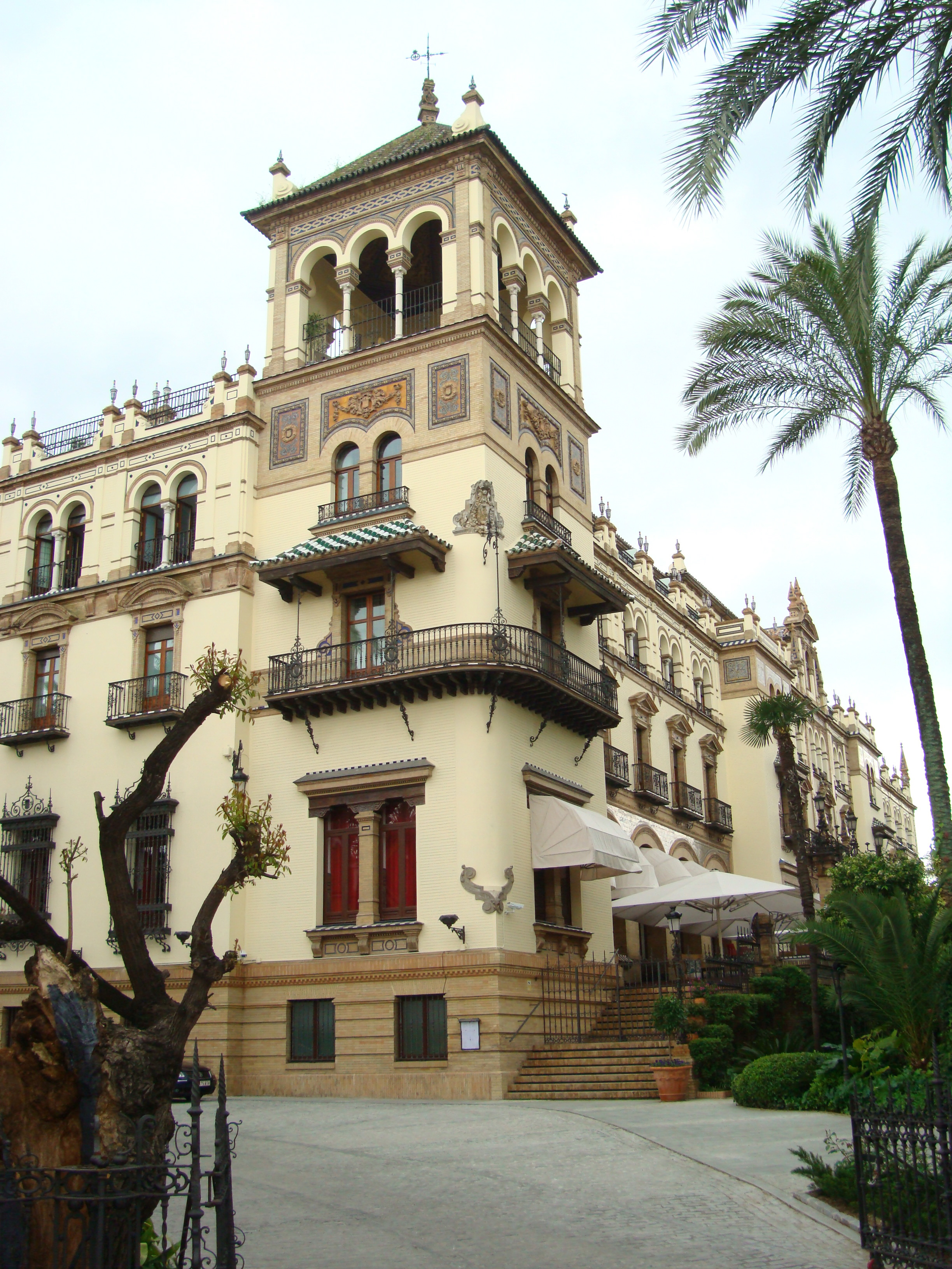 Sevilla (Spain) - Hotel Alfonso XIII.